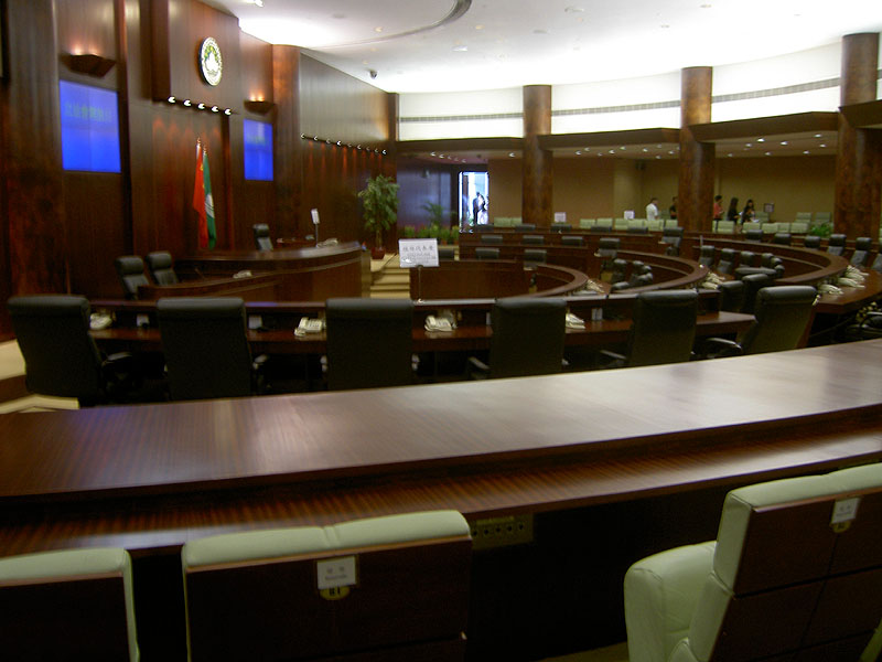 Meeting Room of Macau Legislative Assembly. Photo taken during Open Day 2007.